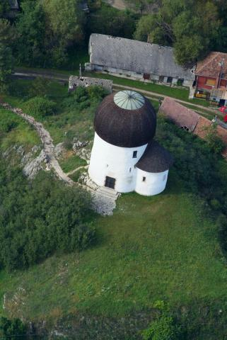 Öskü, Hungary, aerialphotography